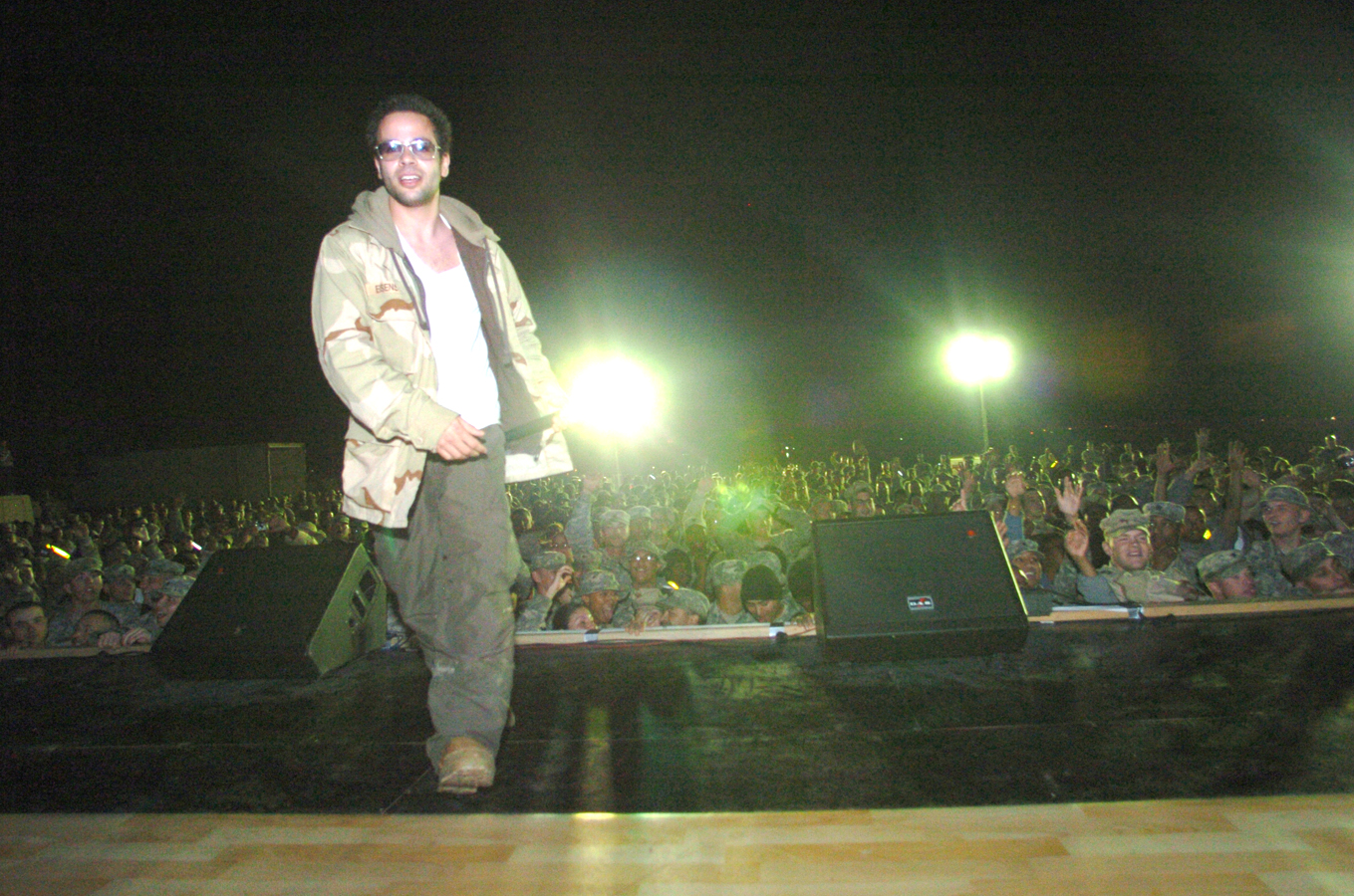 An enthusiastic crowd cheers on rapper Stu Stone as he turns around to grab another handful of DVDs to toss out during the Jamie Kennedy Hip-Hop Comedy Tour. Stone was one of five performers to entertain service members during their stop to Camp Liberty, Iraq, Feb. 23. The two-hour set, which headlined Houston-based rapper Paul Wall, was the last stop for the USO-sponsored comedy tour.